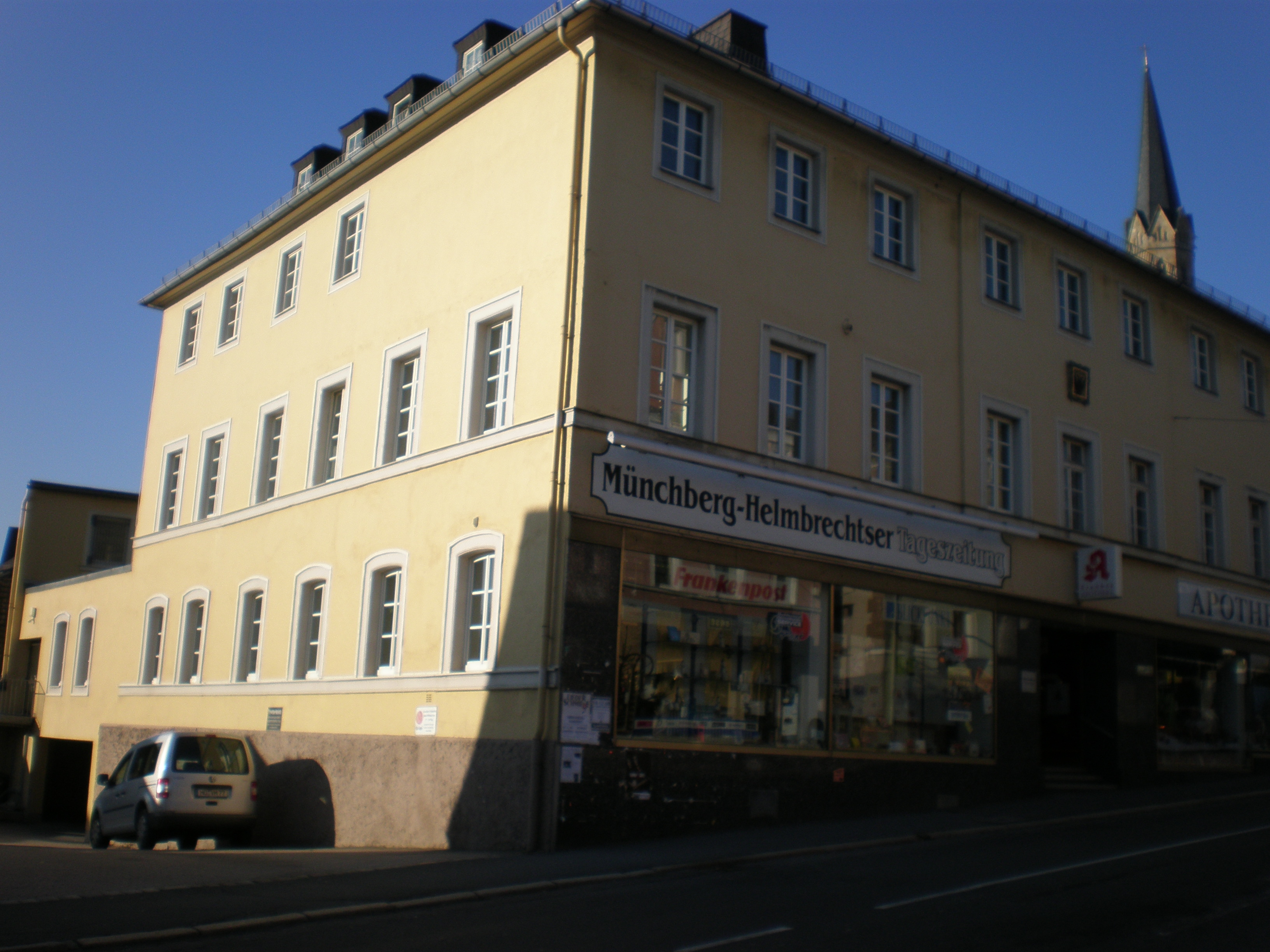 The former hotel "Black Eagle" in Münchberg